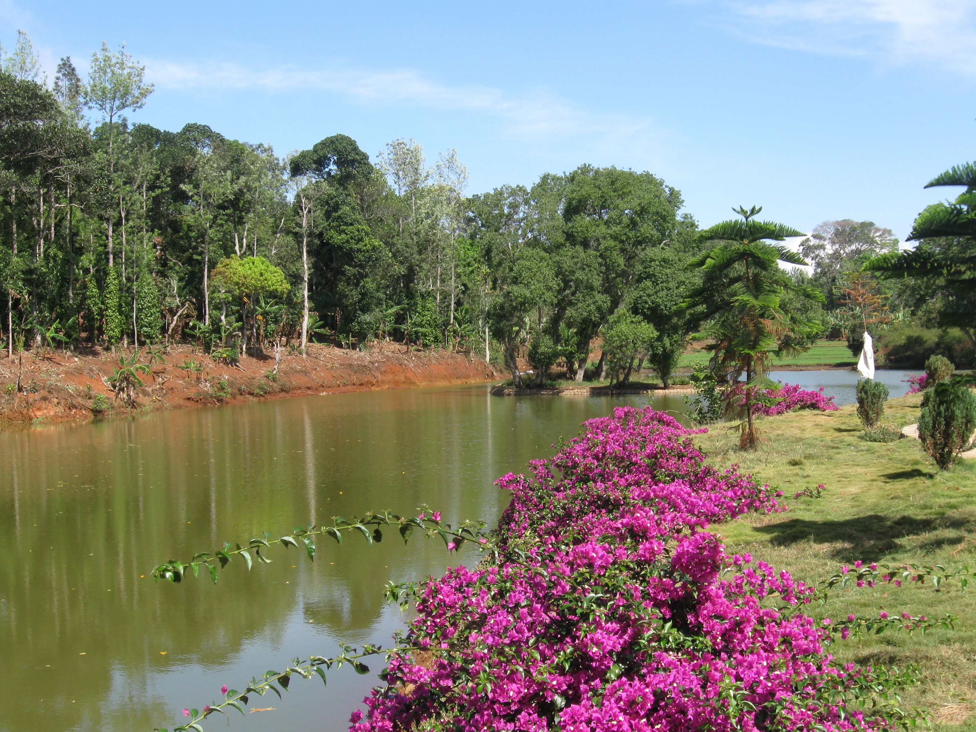 Vasalurpatti Boat Jetty, Kolli Hills, Tamil Nadu India